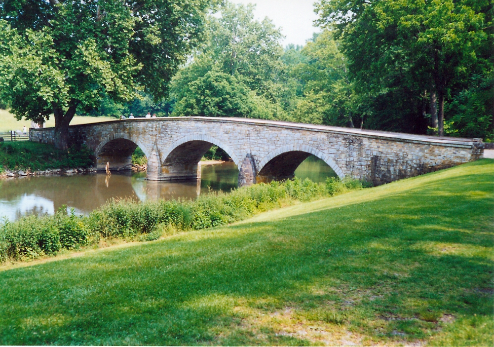 Burnside's Bridge, Antietam Creek, Maryland, USA